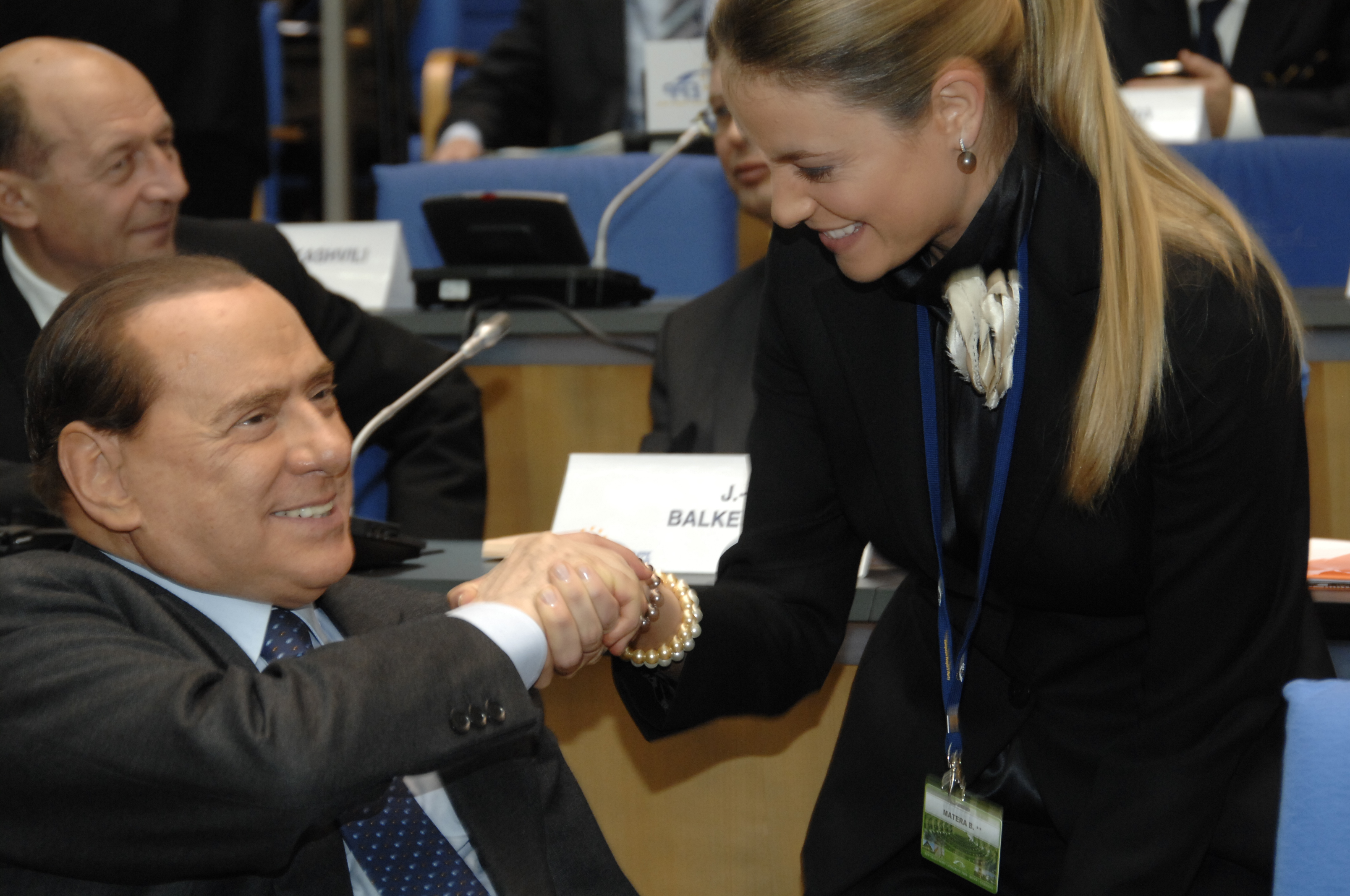 EPP Congress Bonn